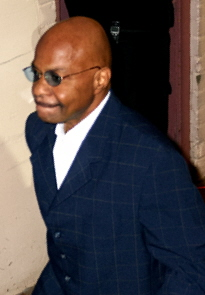 Theodore Long makes his entrance on a WWE house show held in Kitchener, Ontario, Canada on January 15, 2005.